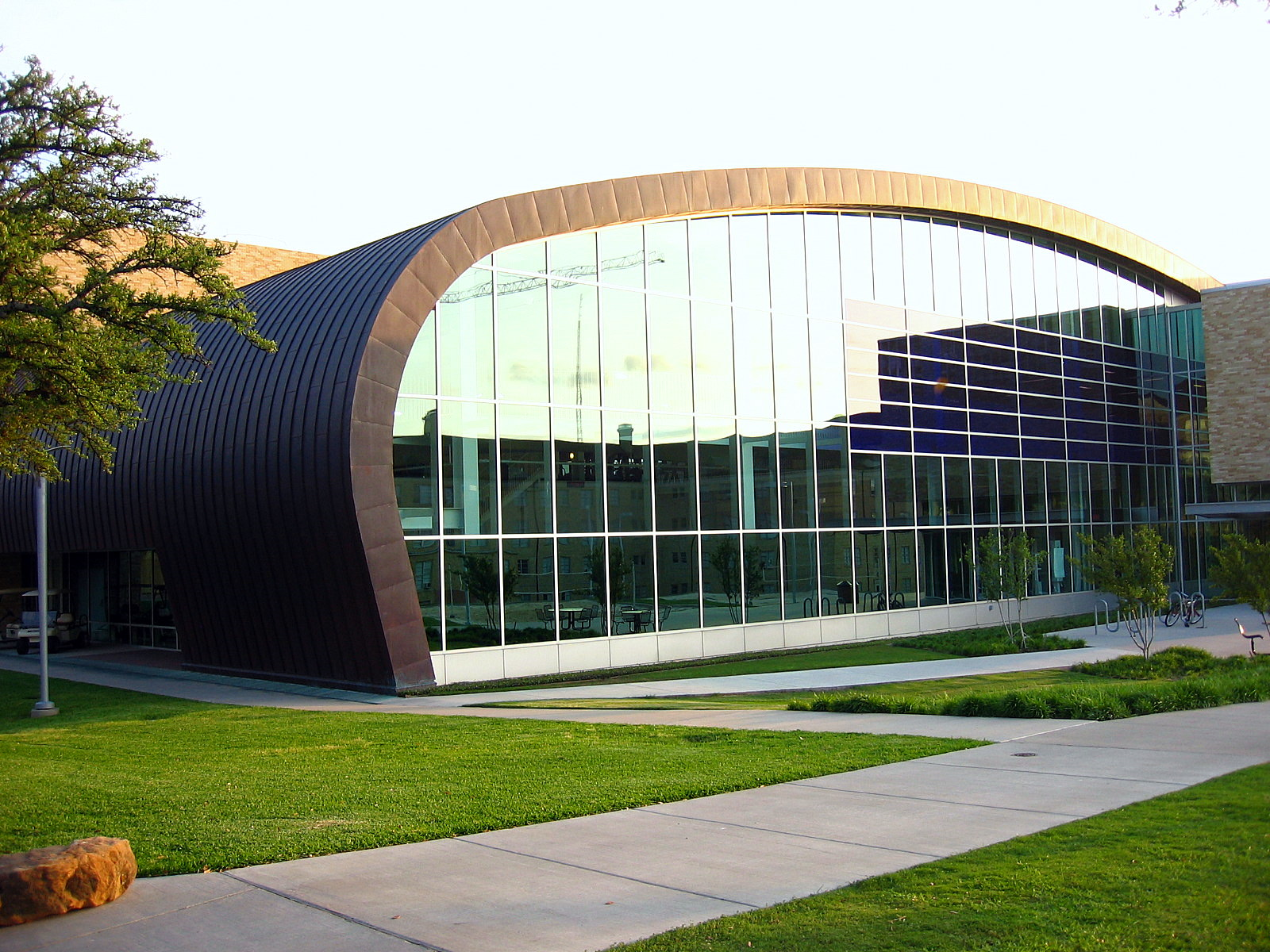 The distinctive windows of the Recreation Center on the campus of Texas Christian University. The architect is Mehrdad Yazdani: [1]